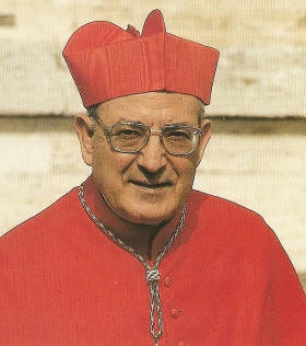 Cardinale Francesco Colasuonno